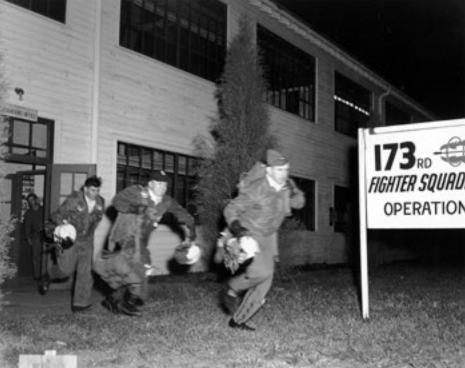 Pilots from the 173rd Fighter Squadron, Nebraska Air National Guard, running to their planes during a practice alert at Lincoln Air Force Base, Nebraska (USA), before 1951, when the unit was redesignated Fighter-Interceptor Squadron.